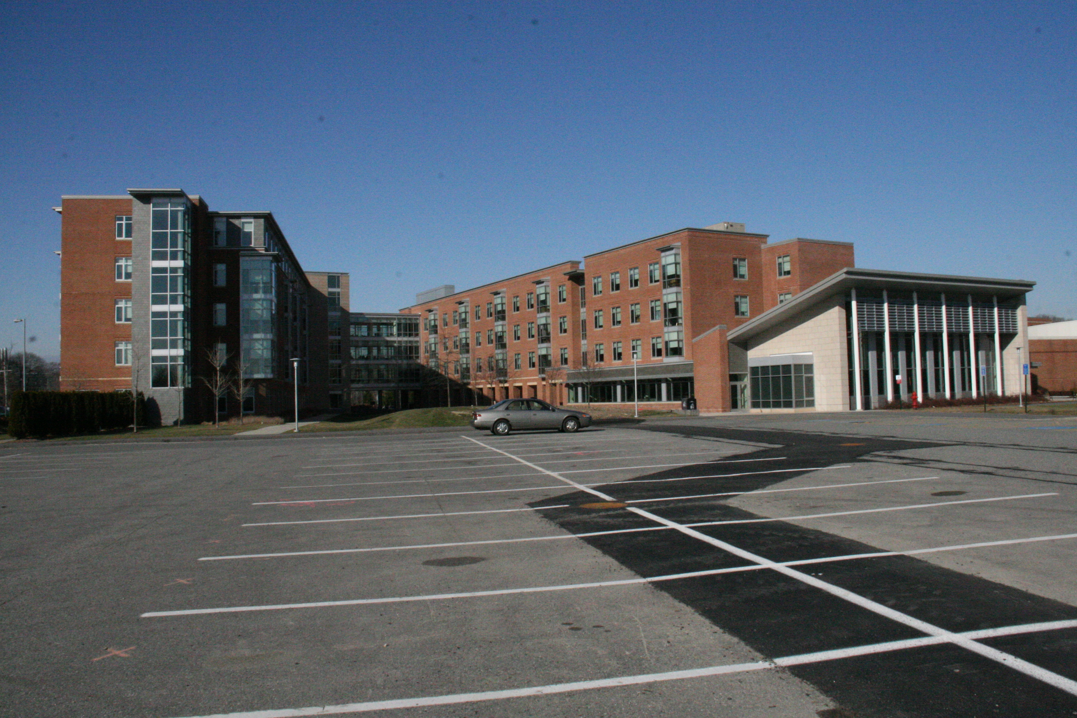 Bridgewater University 200 East Campus Drive Bridgewater Ma.